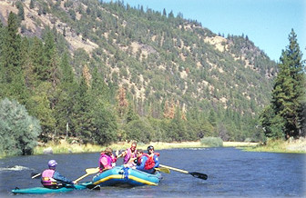 Rafting on the Wild and Scenic Klamath River, Oregon, USA.